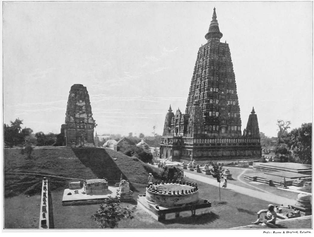 Bodh Gaya before 1899